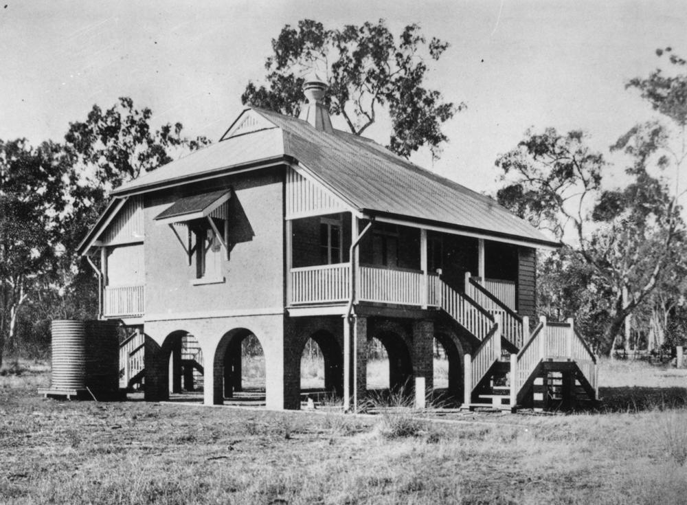 Kleinton State School in the Toowoomba District, 1910. The Kleinton State School is approximately 20 kms from Toowoomba.